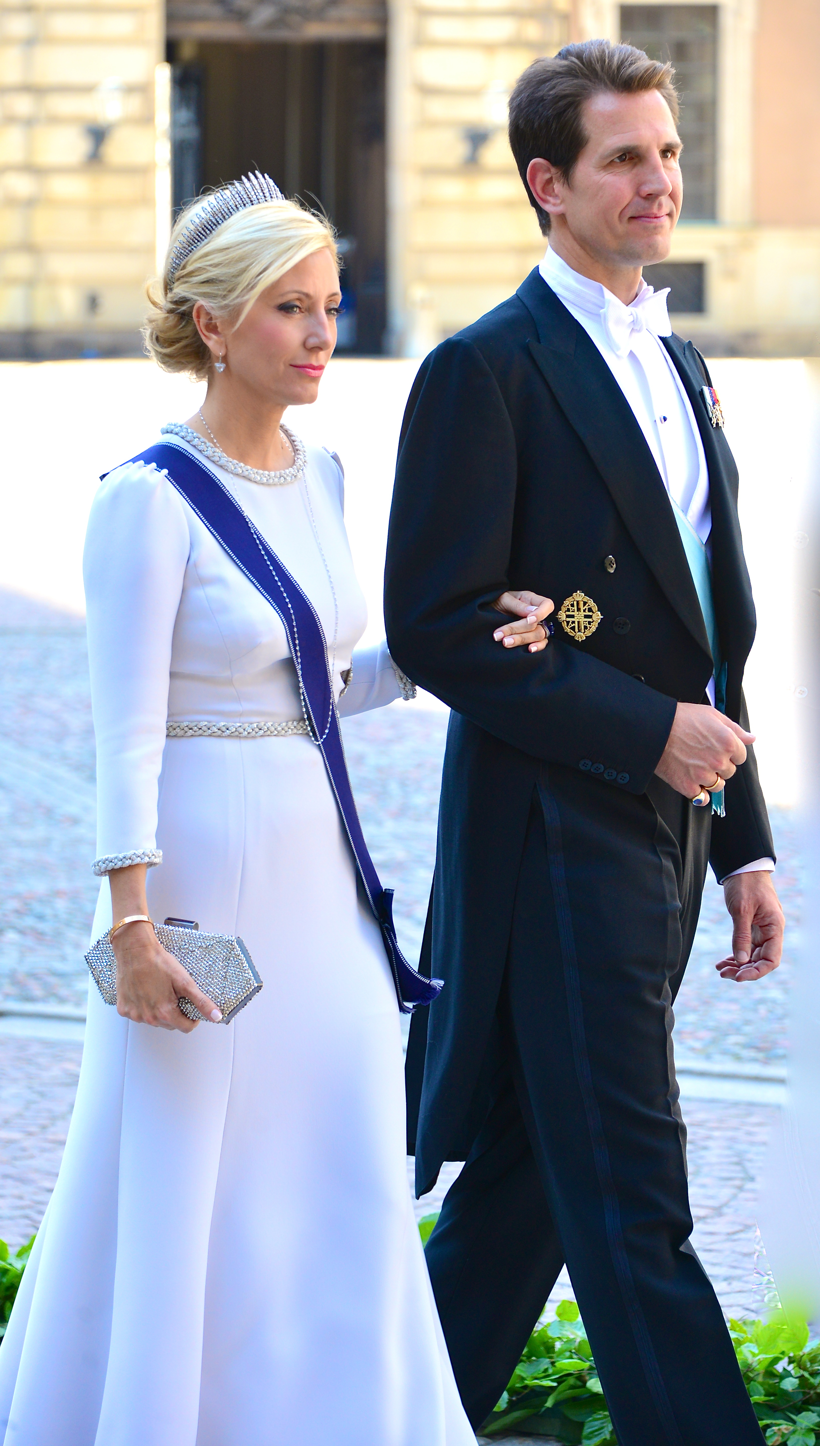 Pavlos, Crown Prince of Greece and Marie-Chantal, Crown Princess of Greece, on the way to the castle church at the Royal Palace in Stockholm before the wedding between Princess Madeleine and Christopher O'Neill June 8, 2013.